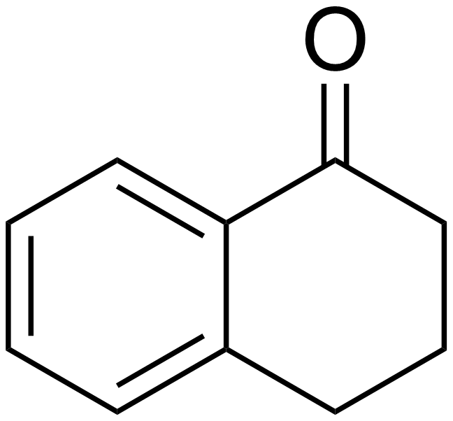 Chemical structure of 1-tetralone, alpha-tetralone